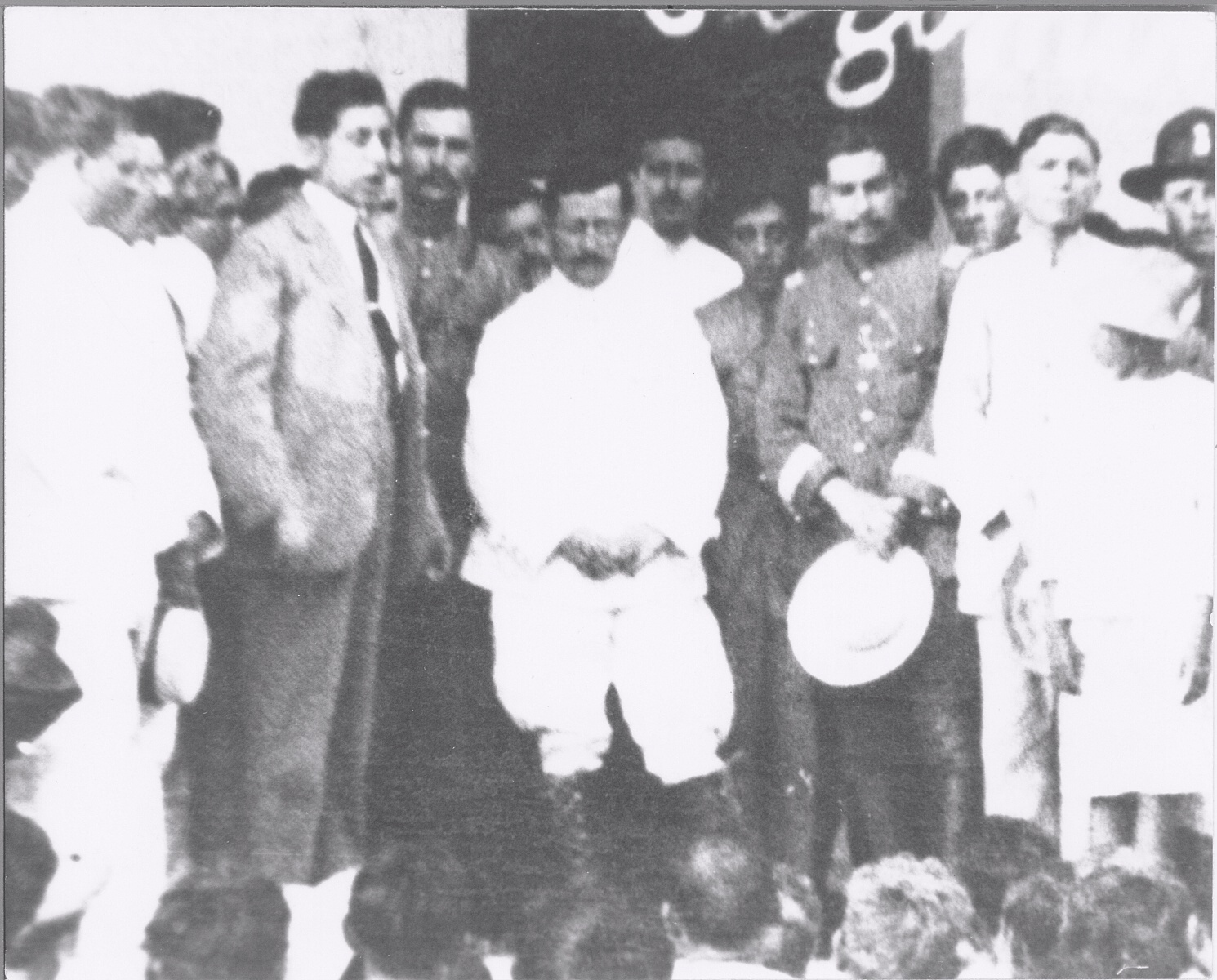 Coronel Gustavo Arce con el general Salvador Alvarado Arce Correa pronunciando un discurso frente al general Salvador Alvarado en Yucatán, en 1915